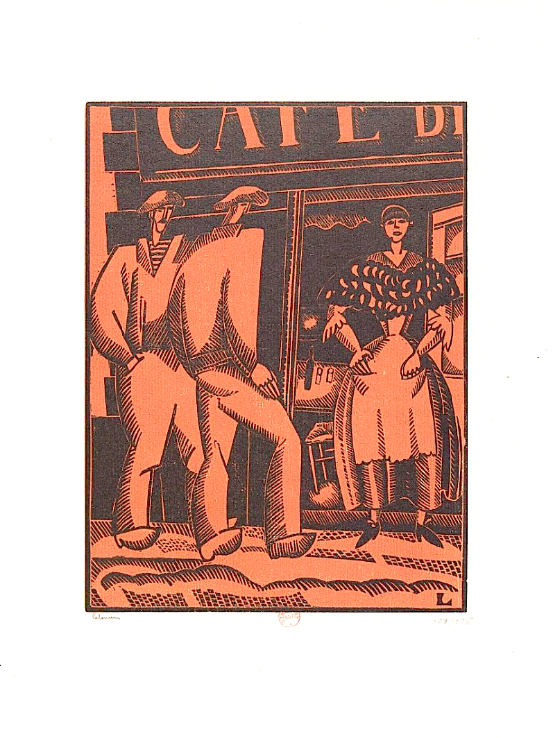 Café des Alliés, woodcut print (second state) published in Imagier, Société de la gravure sur bois originale, Paris, issue 1.